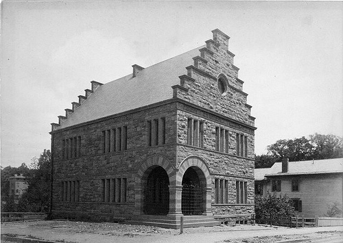 View of the 'Old Wolf's Head society hall," designed by architects McKim, Mead & White, and erected in 1884. The hall was purchased by Yale University in 1924. Photograph courtesy of the Yale University Manuscripts & Archives Digital Images Database. Retouched by MarmadukePercy.